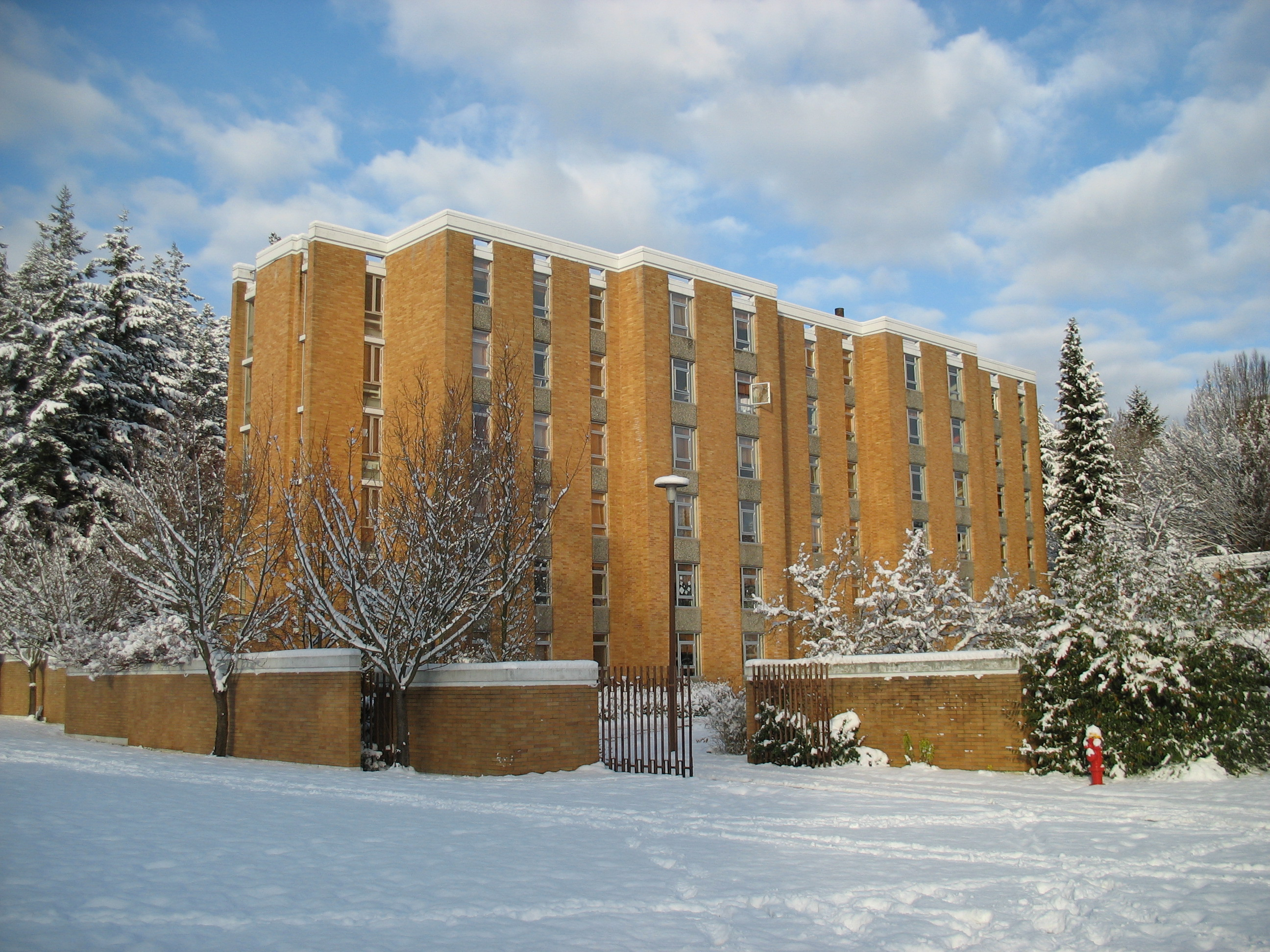 Dene House, Totem Park Residence, University of British Columbia